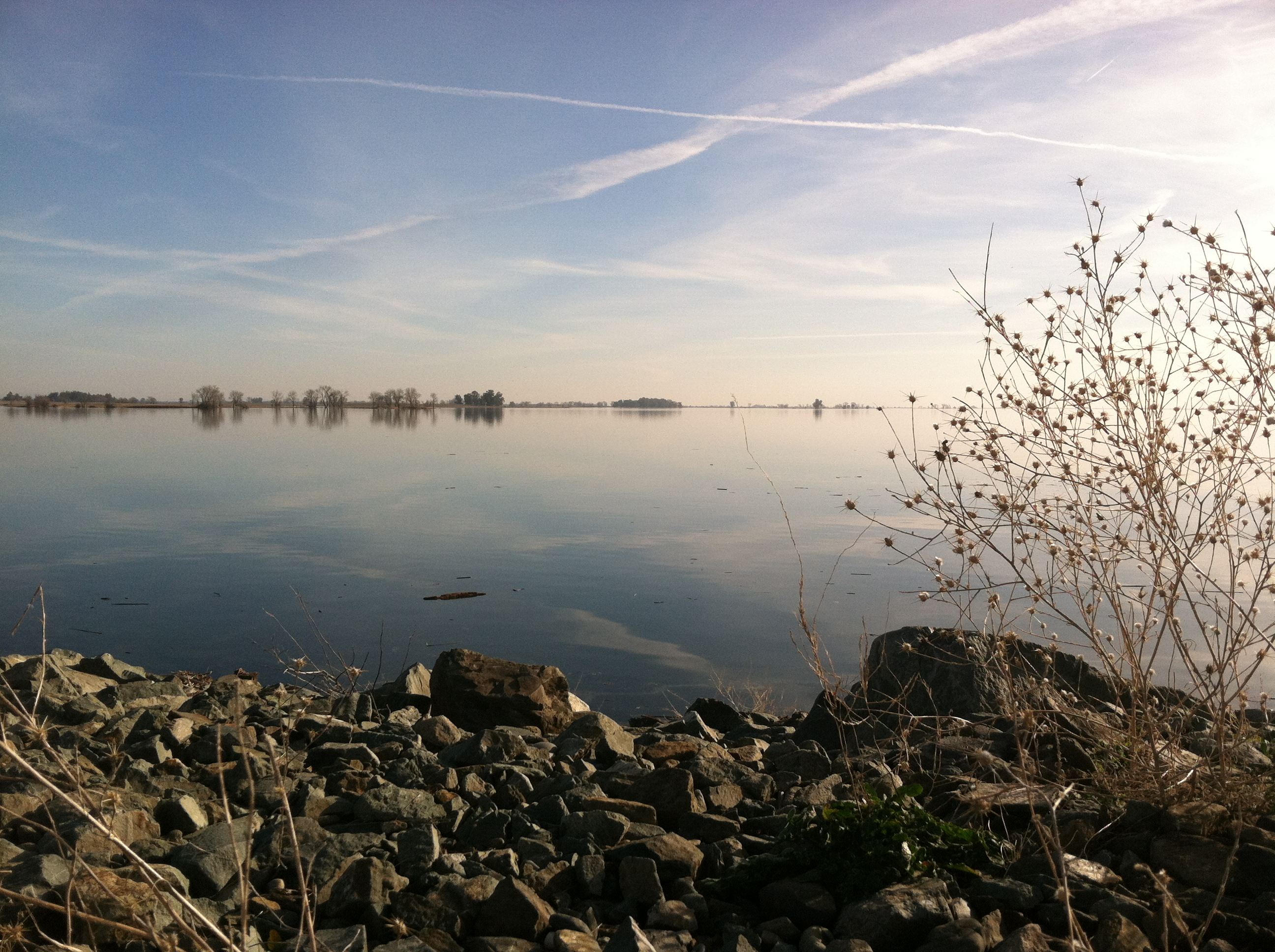 Part of the southern cut of the Oroville-Thermalito Complex — the Thermalito afterbay, off the Oroville Wildlife Area, in Butte County, Northern California. A part of the California State Water Project system infrastructure.